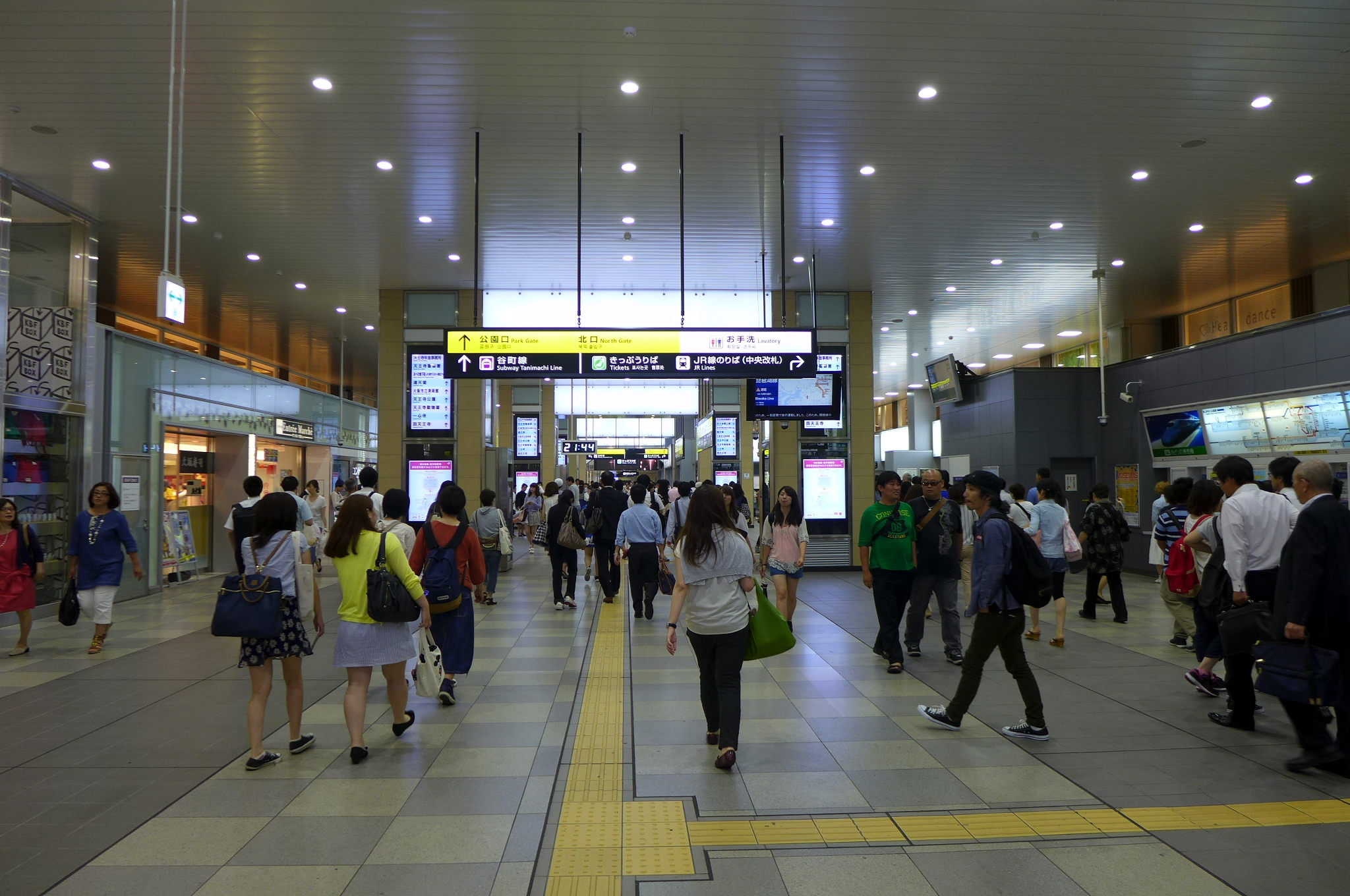 Tennoji Station Concourse